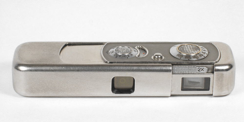 Minox Riga camera extended, ready for taking an image. Designer camera - Walter Zapp. Artist designer - Adolf Irbitis (A. Irbite). The camera set up in the factory VEF Riga in 1938.